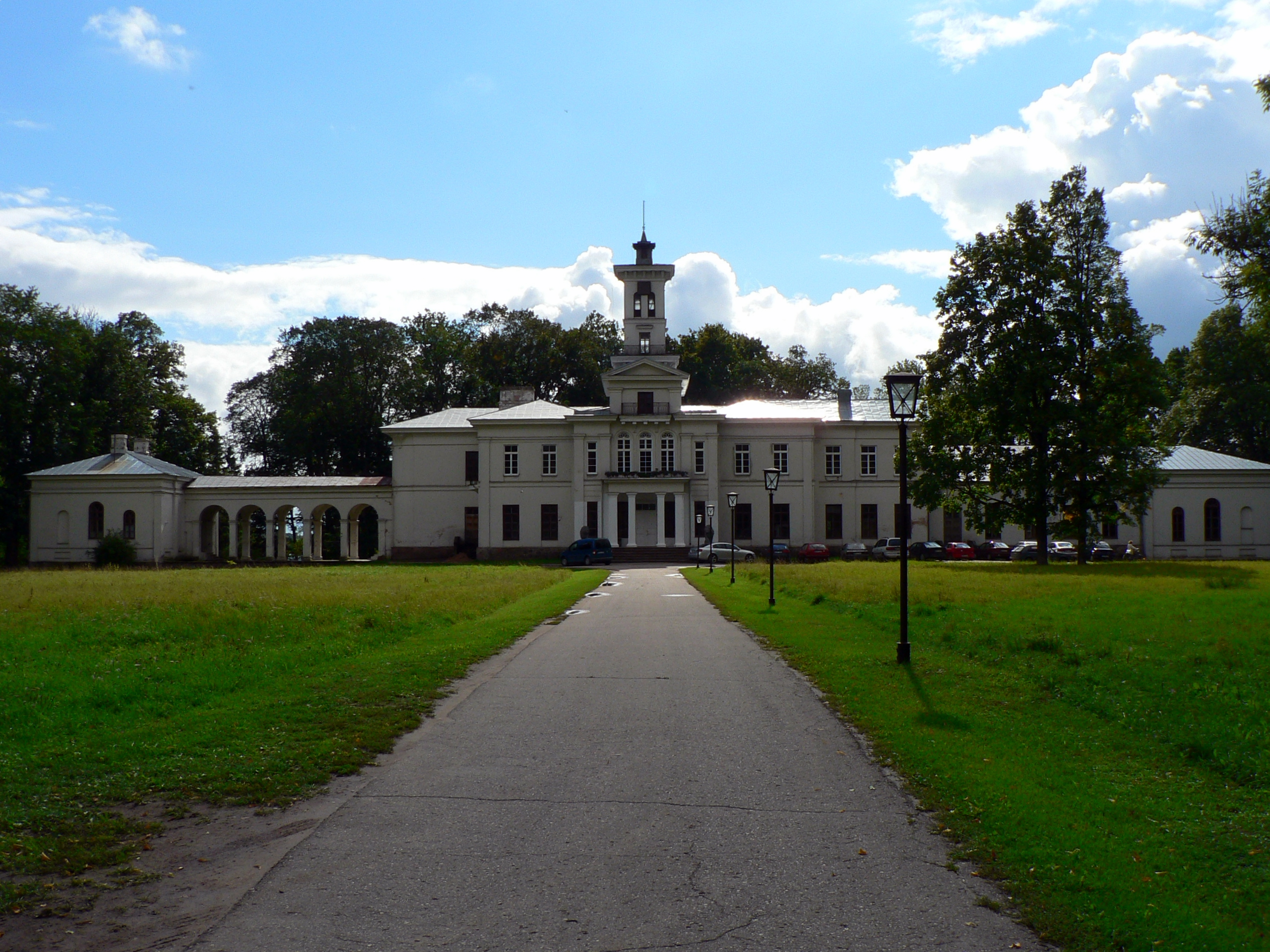 Tyszkiewicz Palace, Biržai, Lithuania